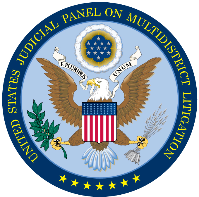 Official Court Seal of the United States Judicial Panel on Multidistrict Litigation